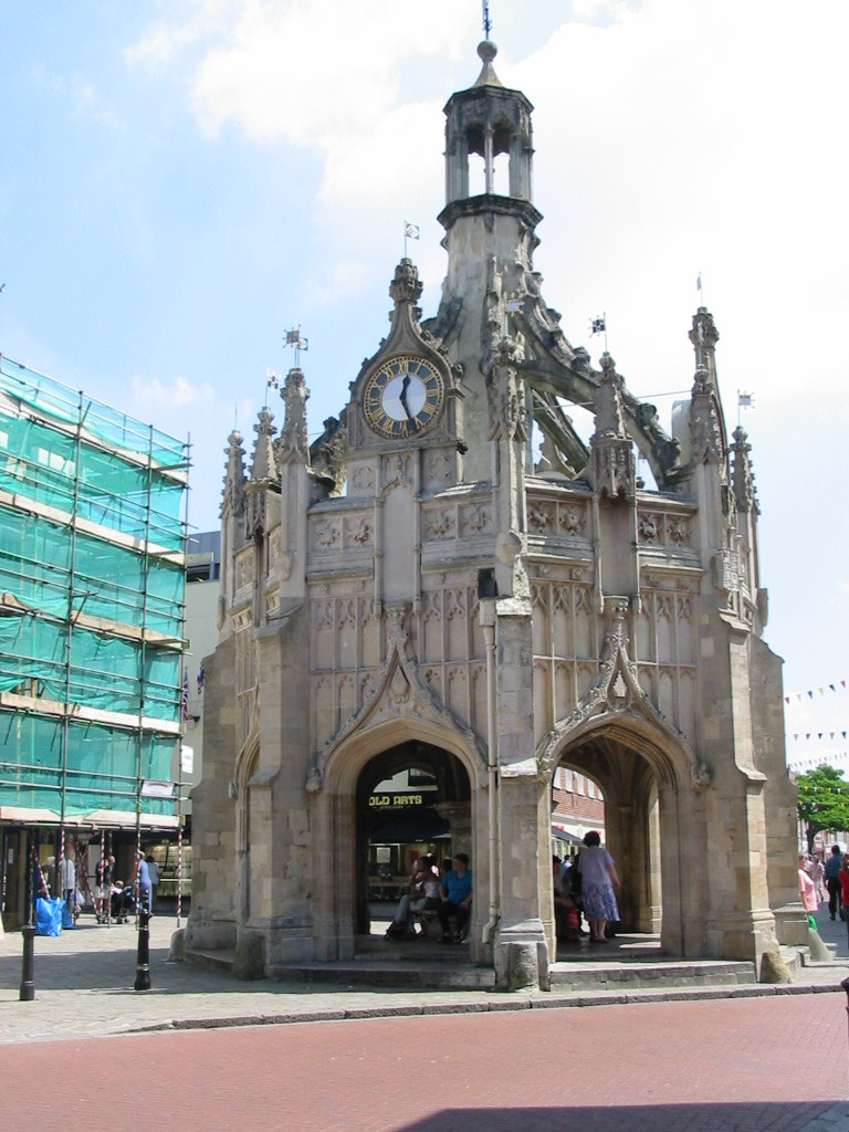 The market cross in Chichester, West Sussex, southern England